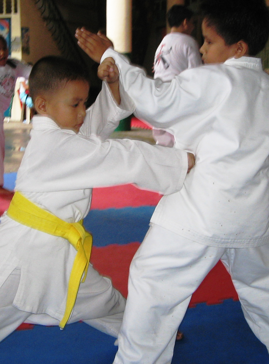 JJS Karate kids during training at Jack & Jill School Dojo in Bacolod City